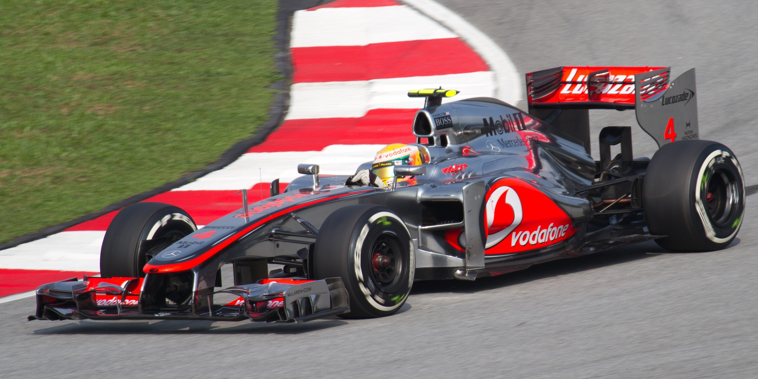 Formula One 2012 Rd.2 Malaysian GP: Lewis Hamilton (McLaren) during the qualify session on Saturday.